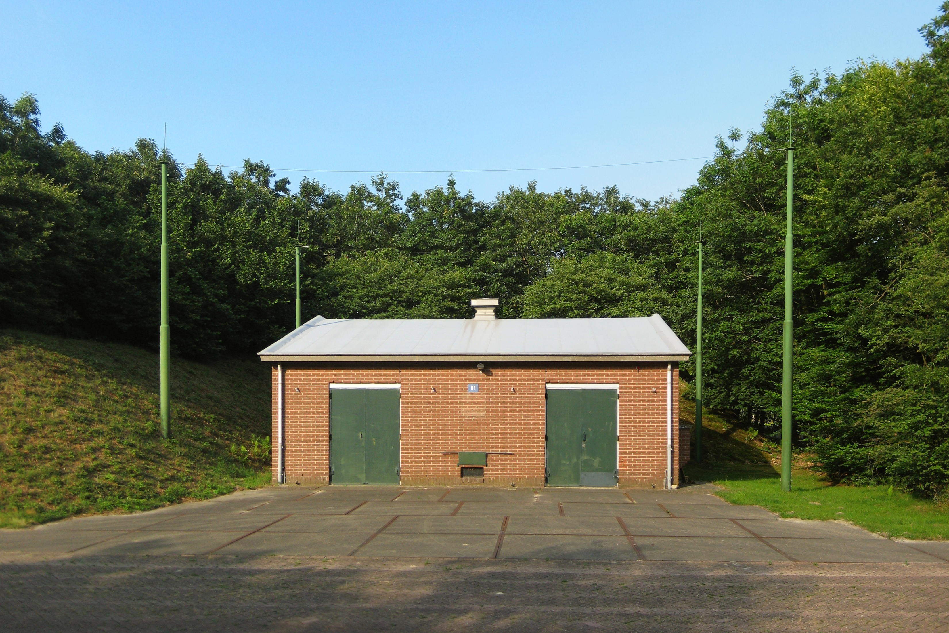 Former ammunition depot near the village of Donderen in Tynaarlo, a municipality in the Dutch province of Drenthe.